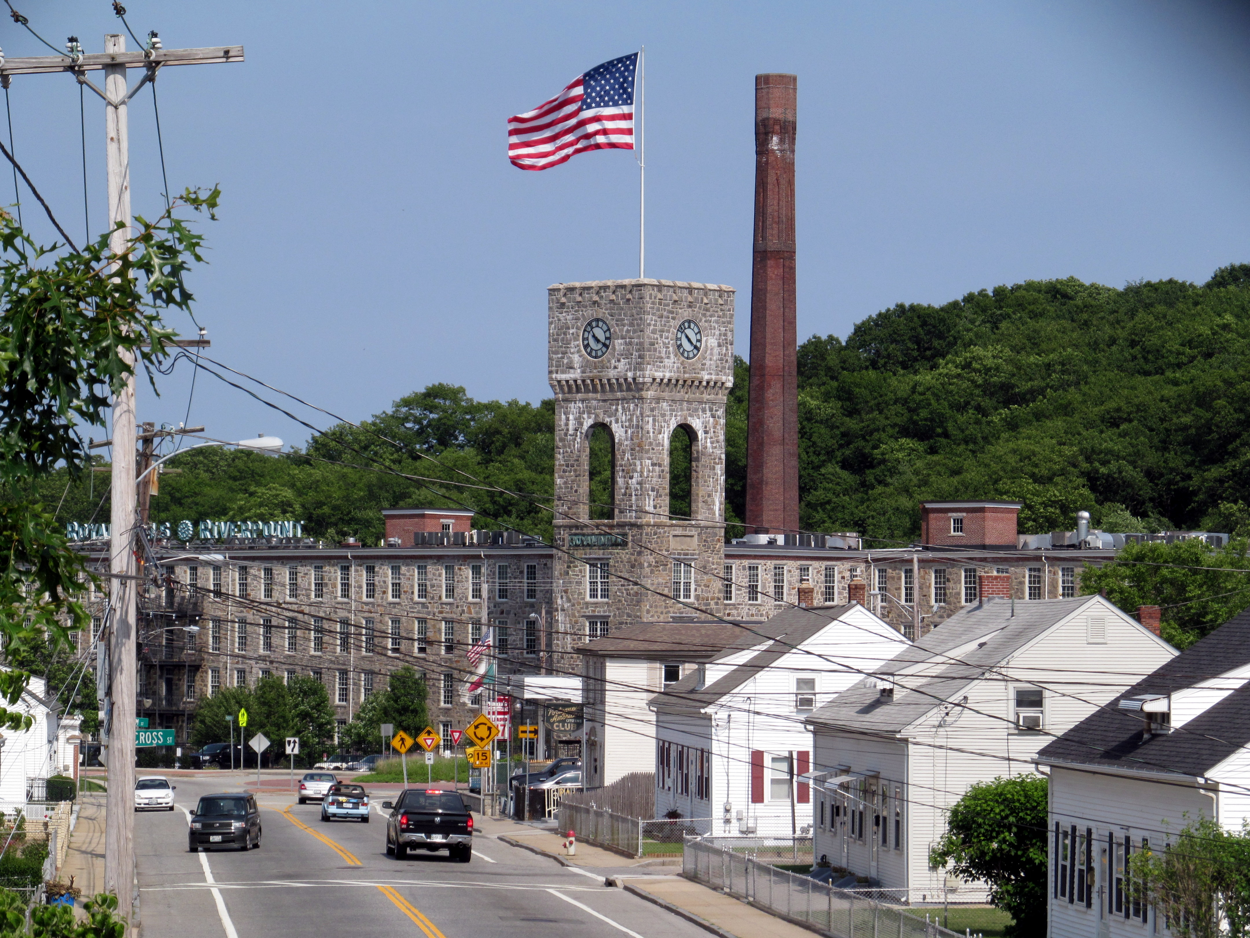 Looking down East Main Street in West Warwick, Rhode Island from the Washington Secondary Trail to the Royal Mills, now an apartment complex.